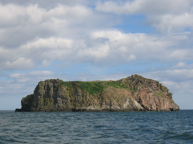 Ore Stone. Situated off the Hope's Nose in Torquay